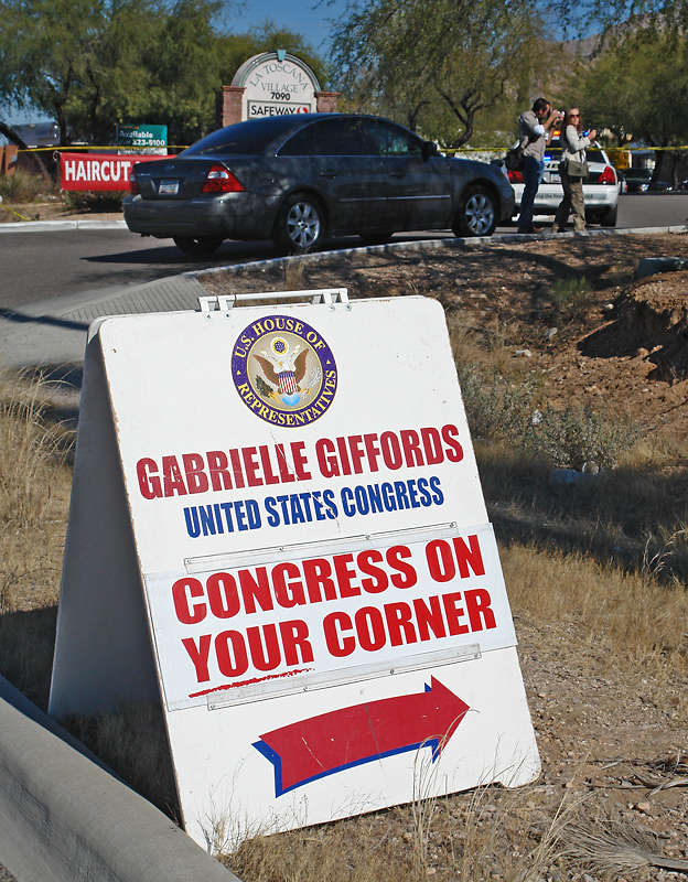 Sign on Oracle at entrance to this corner strip mall shopping center.